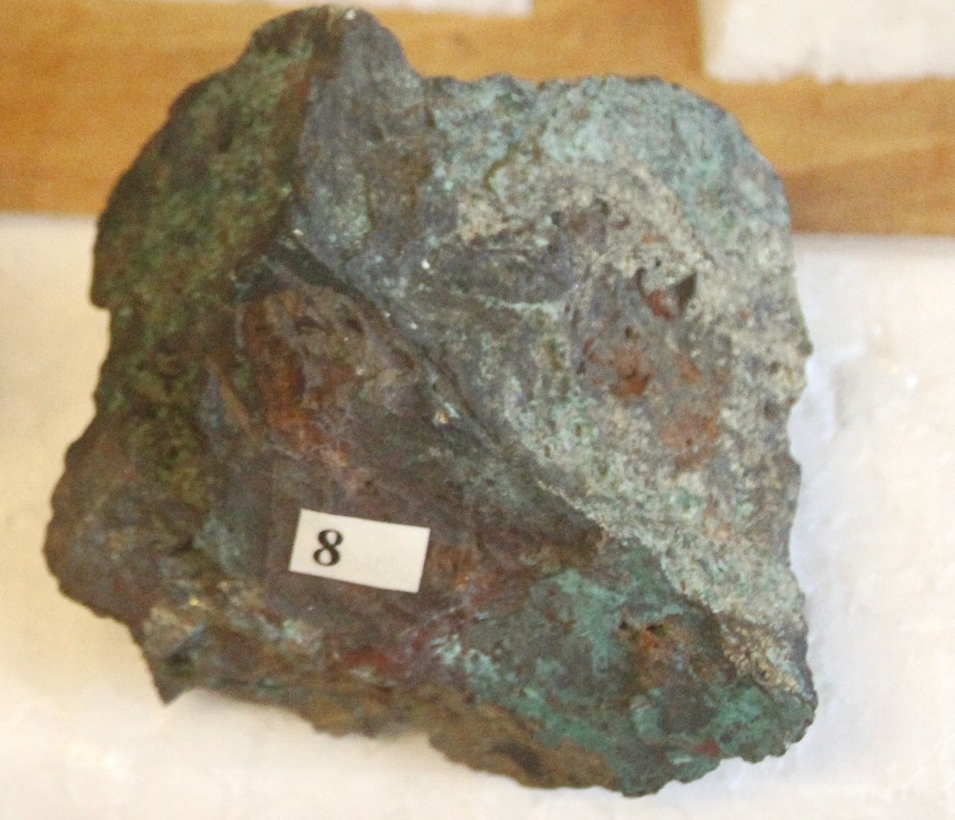 Chalcopyrite with malachite from the st Jonsfjorden bay, western Spitsbergen (Oscar II Land), from Russian geological expedition in 1991. Exhibit object at Barentsburg Museum, Spitsbergen.